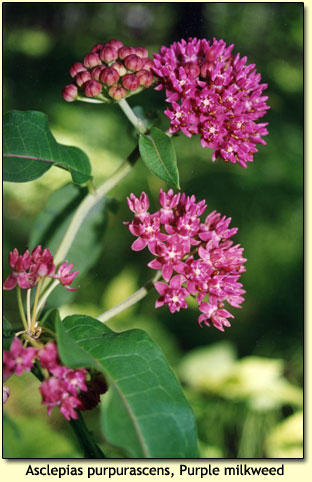 An oak savanna specialist